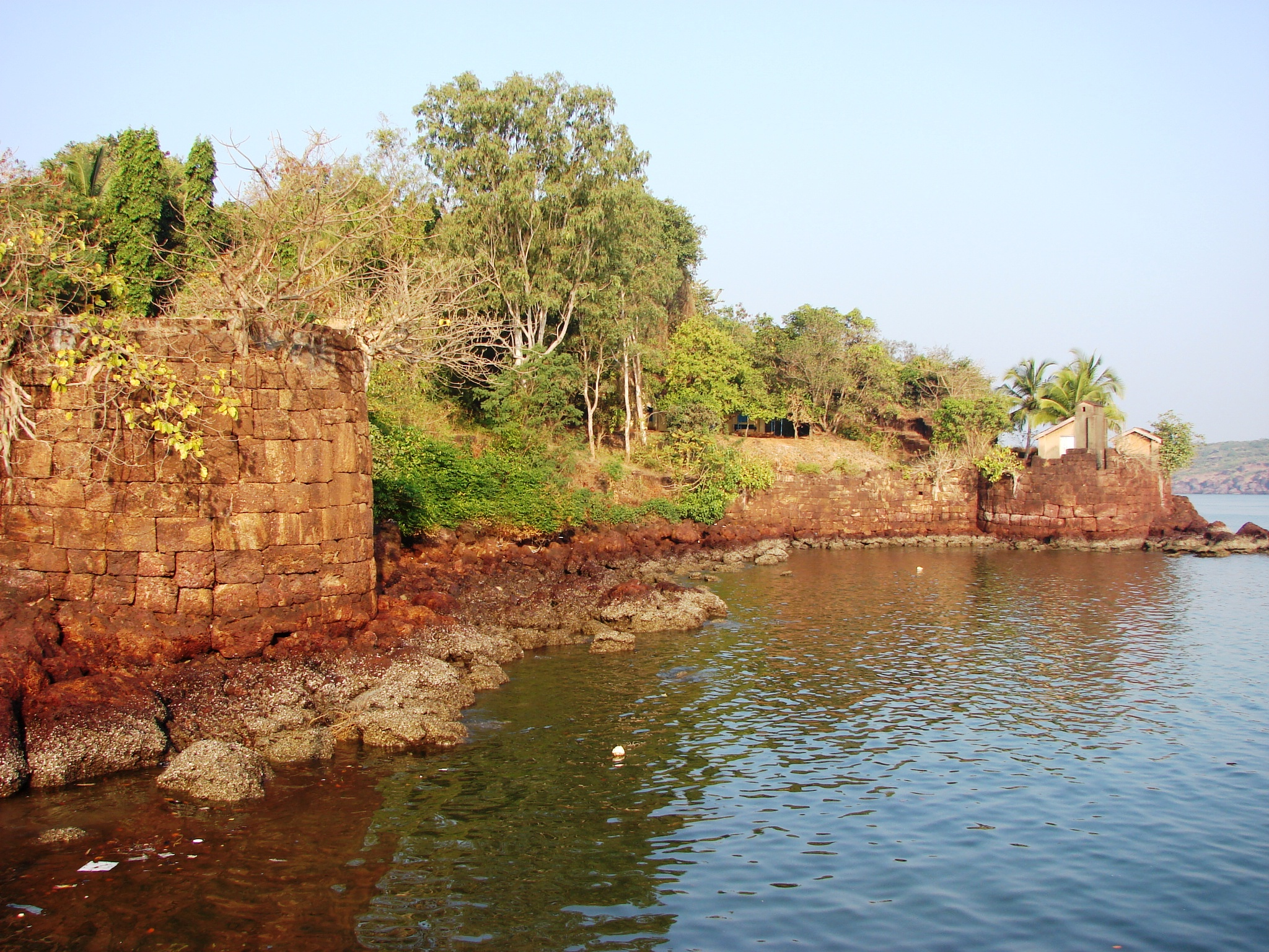 Devgad fort fighting with Sea waves for centuries